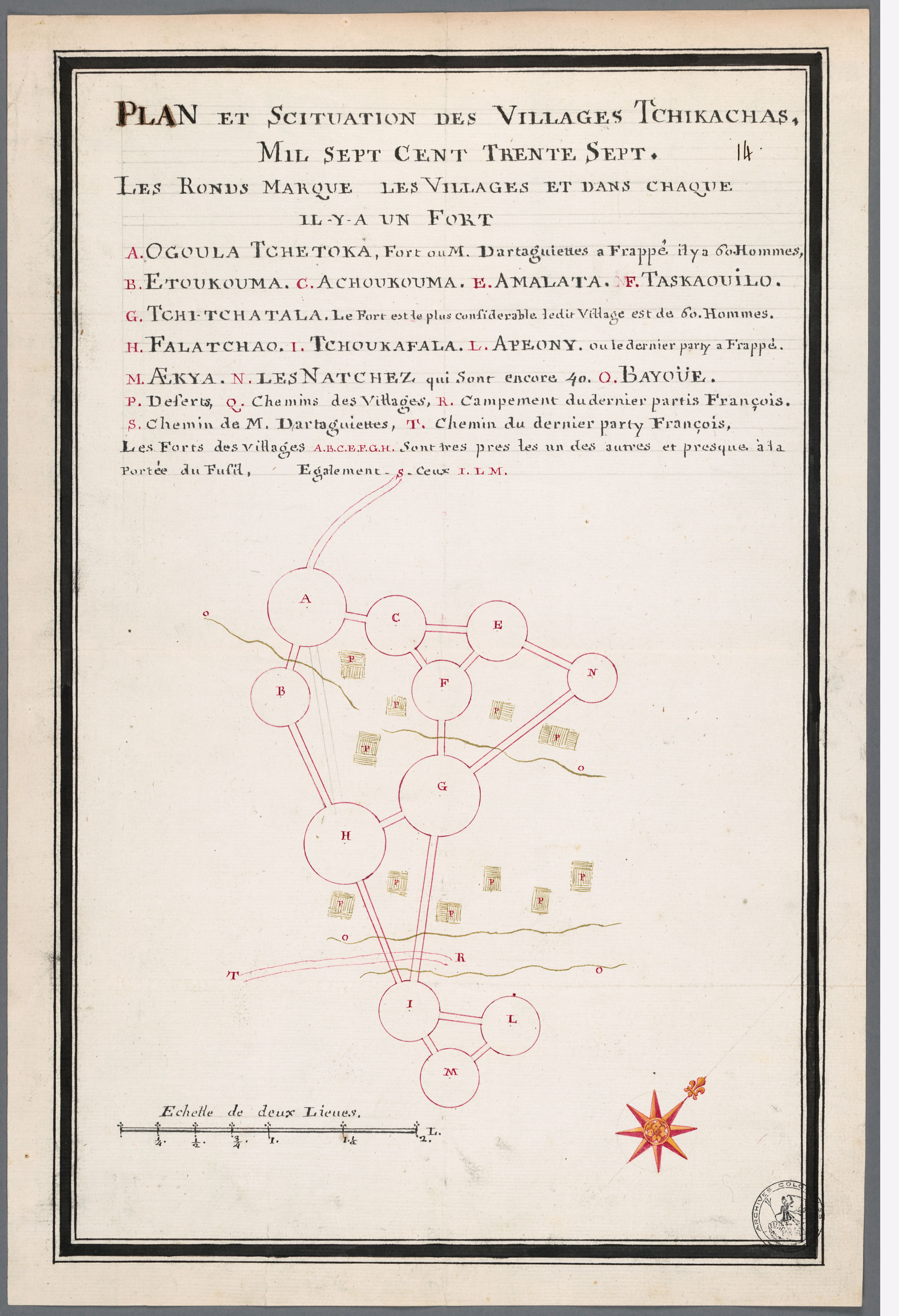 Plan et Scituation des Villages Tchikachas Plan and Situation of the Chickasaw Villages, Alexandre de Batz, 1737. French copy of a map made by a visitor to the Chickasaw. A indicates 'Ogoula Tchetoka, fort where M. d'Artaguette attacked', 4 mi SSE of present day Pontotoc, Mississippi on 25 March, 1736. M indicates Ackia, at present day Tupelo, Mississippi, Bienville's point of attack on May 26, 1736.